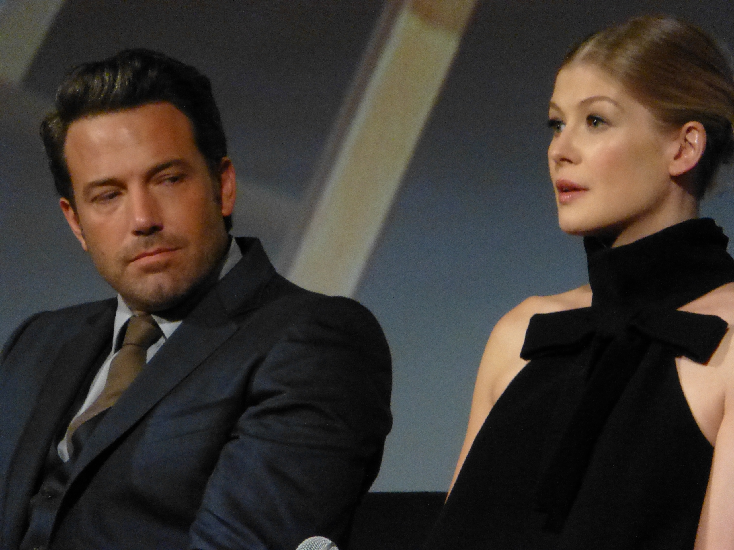 Gone Girl Premiere at the 52nd New York Film Festival, October 2014.